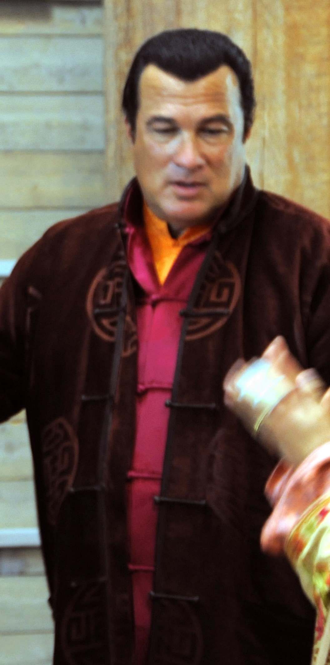 Steven Seagal